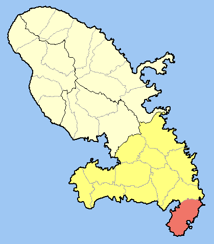 Location of Saint-Anne within Martinique